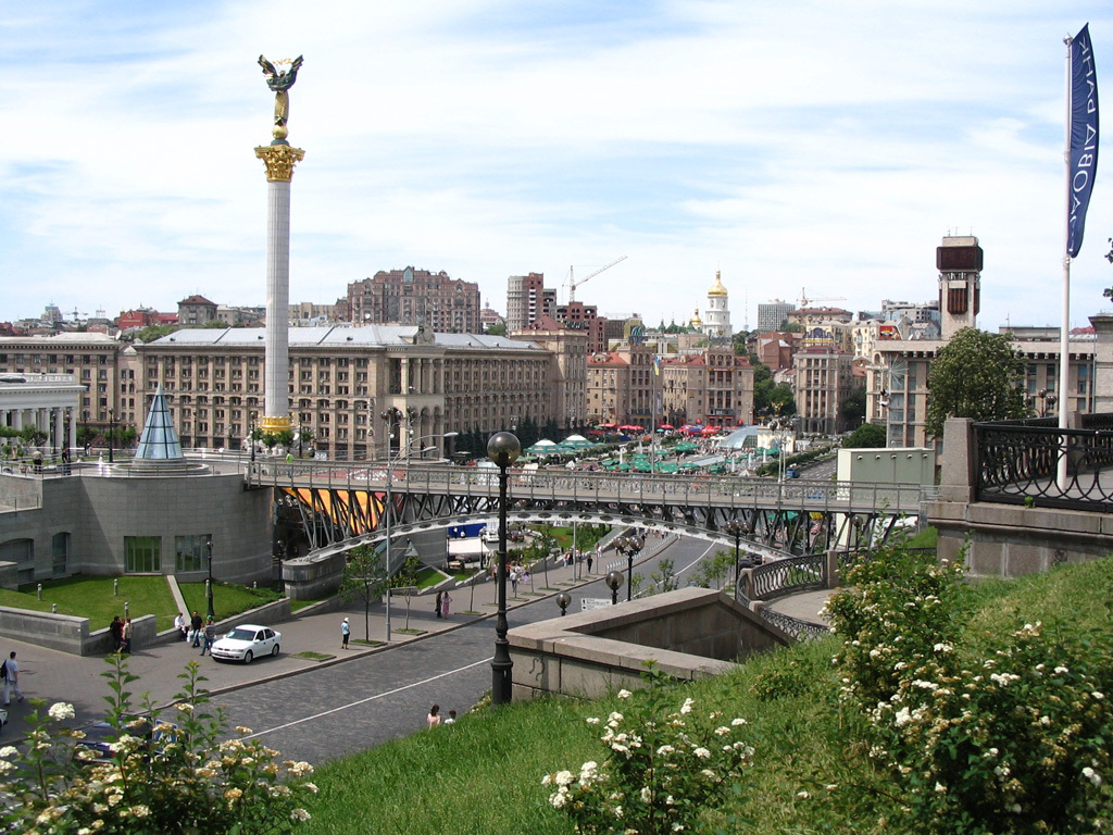 a photo of Kiev, in Ukraine